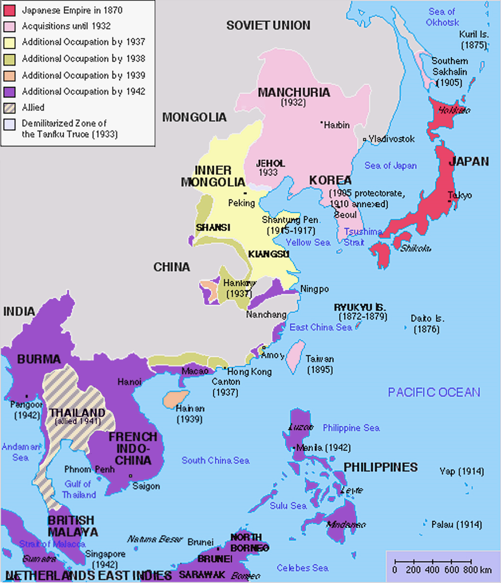 Original map was created by Kokiri, based in part on File:BlankMap-World.png. Subsequent modifications to colors performed by Huhsunqu. Additional corrections (fixed Ryukyu Islands, Sichuan, grammar in table) by Markalexander100.